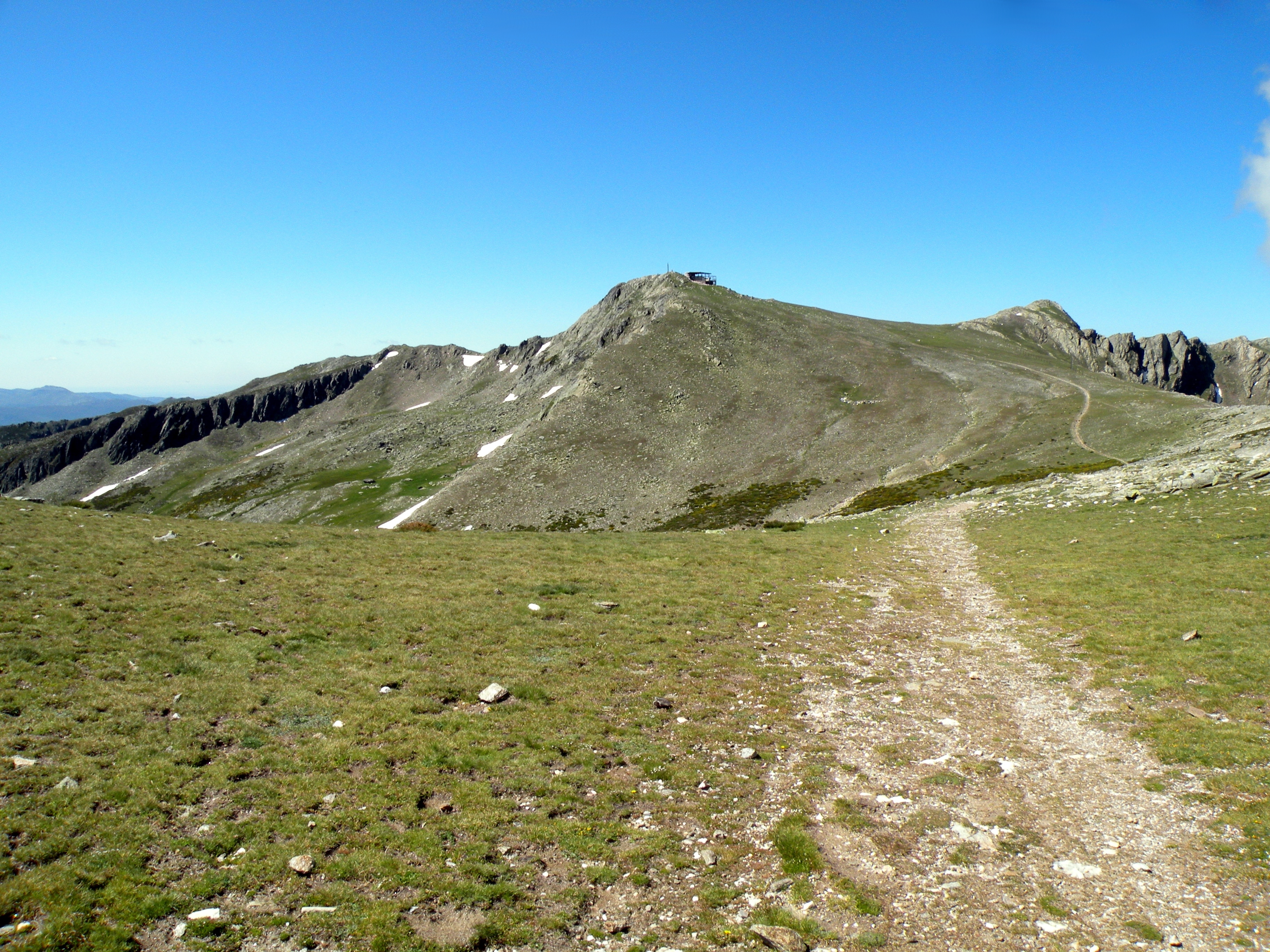 Lobo peak, in Ayllón mountains, between spanish provinces of Guadalajara and Segovia.